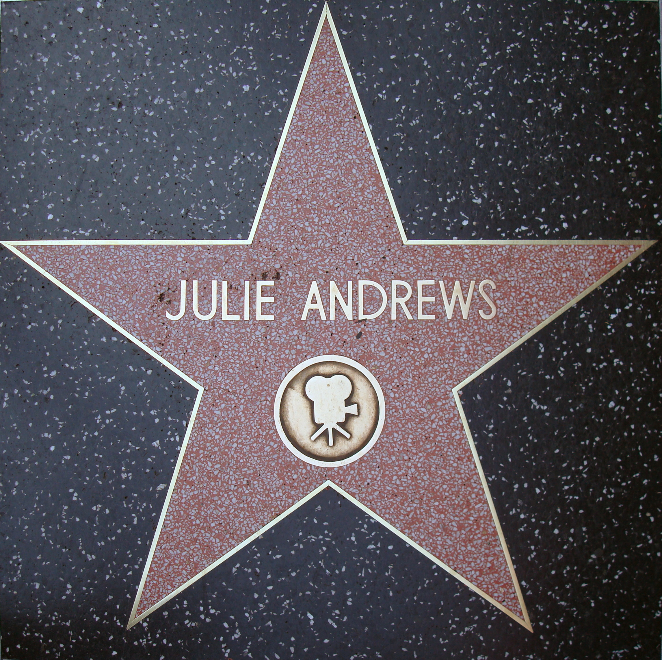 Julie Andrews's star on the Hollywood Walk of Fame in Hollywood, Los Angeles, California